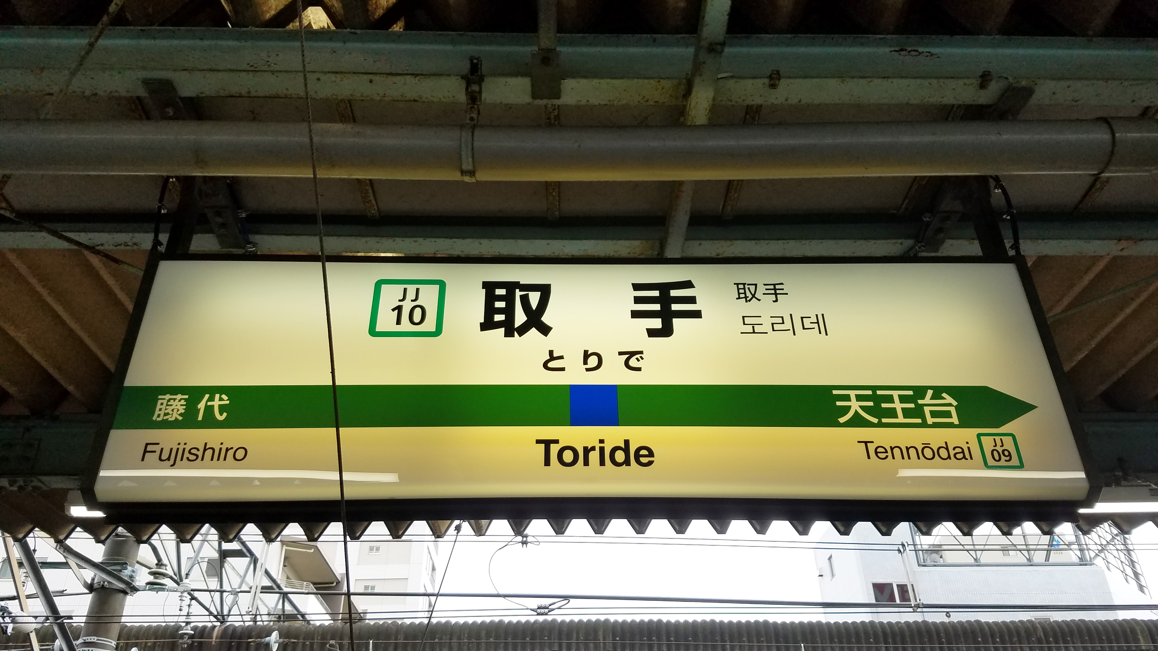 The station sign at Toride Station on the Joban Line in Toride city, Ibaraki prefecture, Japan